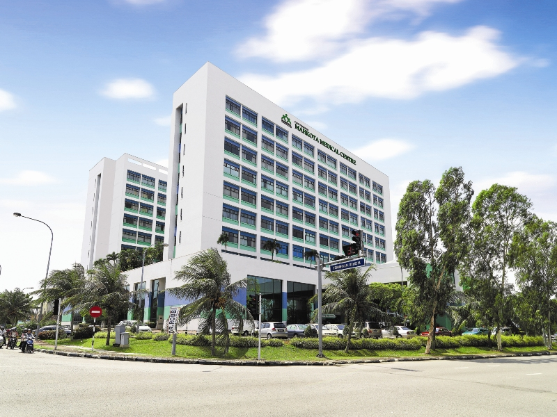 Mahkota Medical Centre Main Building